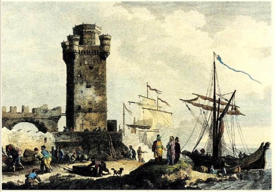 Rhodes-Naillac Tower in a print dated 1790